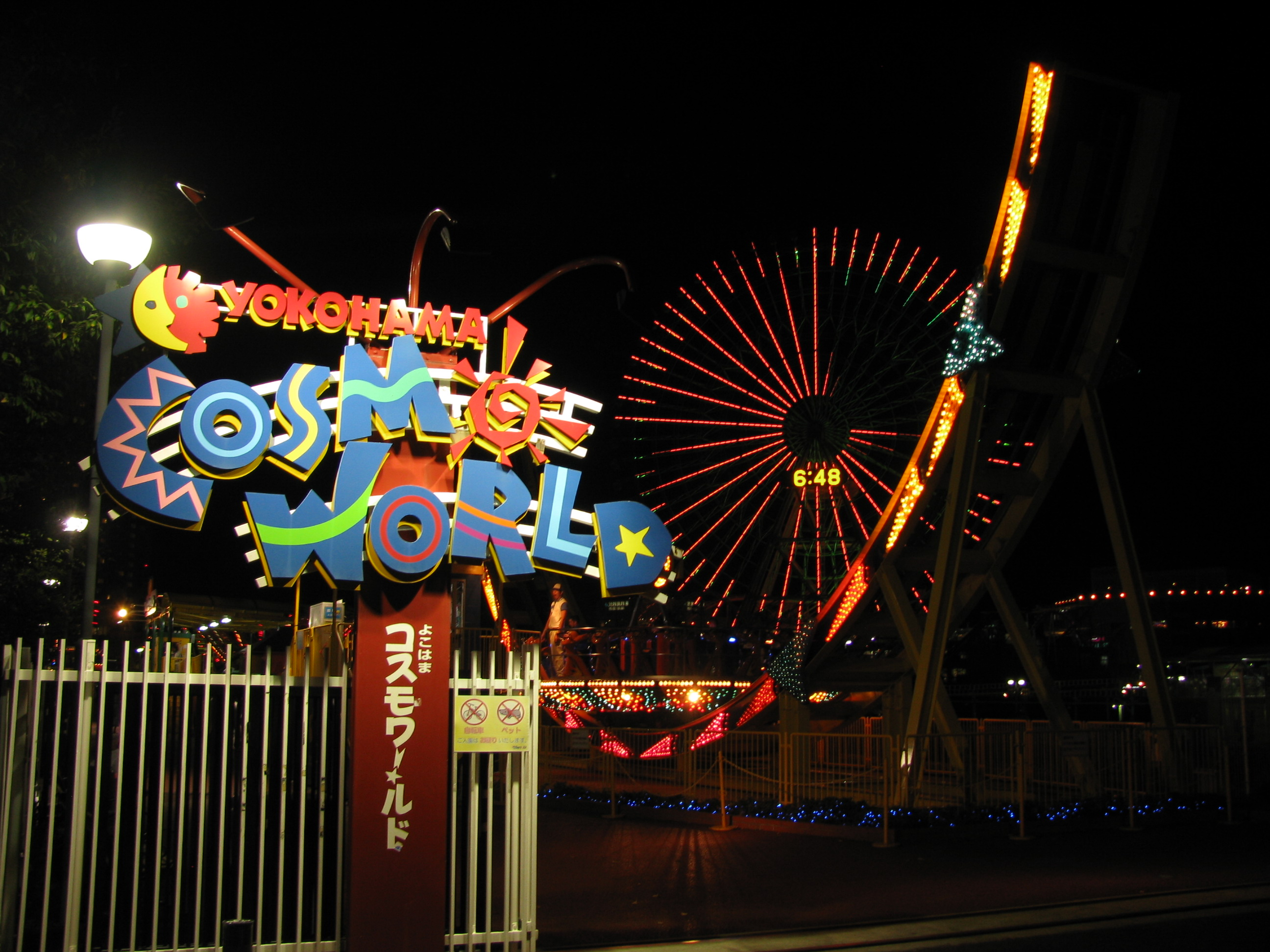 The Yokohama Cosmo World. This location is Minato Mirai in Nishi-ku, Yokohama, Kanagawa Prefecture, Japan.